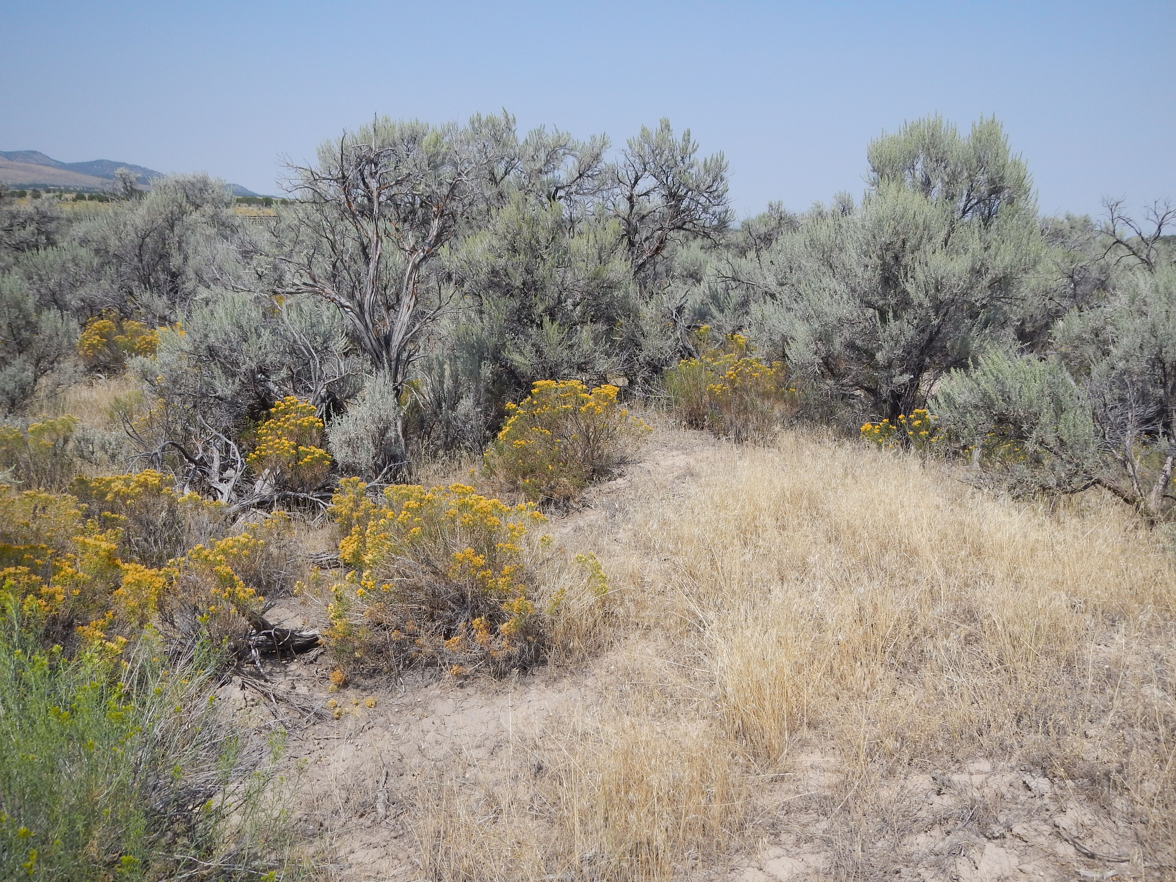 Basin big sagebrush is rarely found in any expanse. In this particular patch, Bromus tectorum dominates the understory. Agropyron cristatum, Elymus cinereus (basin wildrye), and Chrysothamnus viscidiflorus also occur in this particular vegetation.